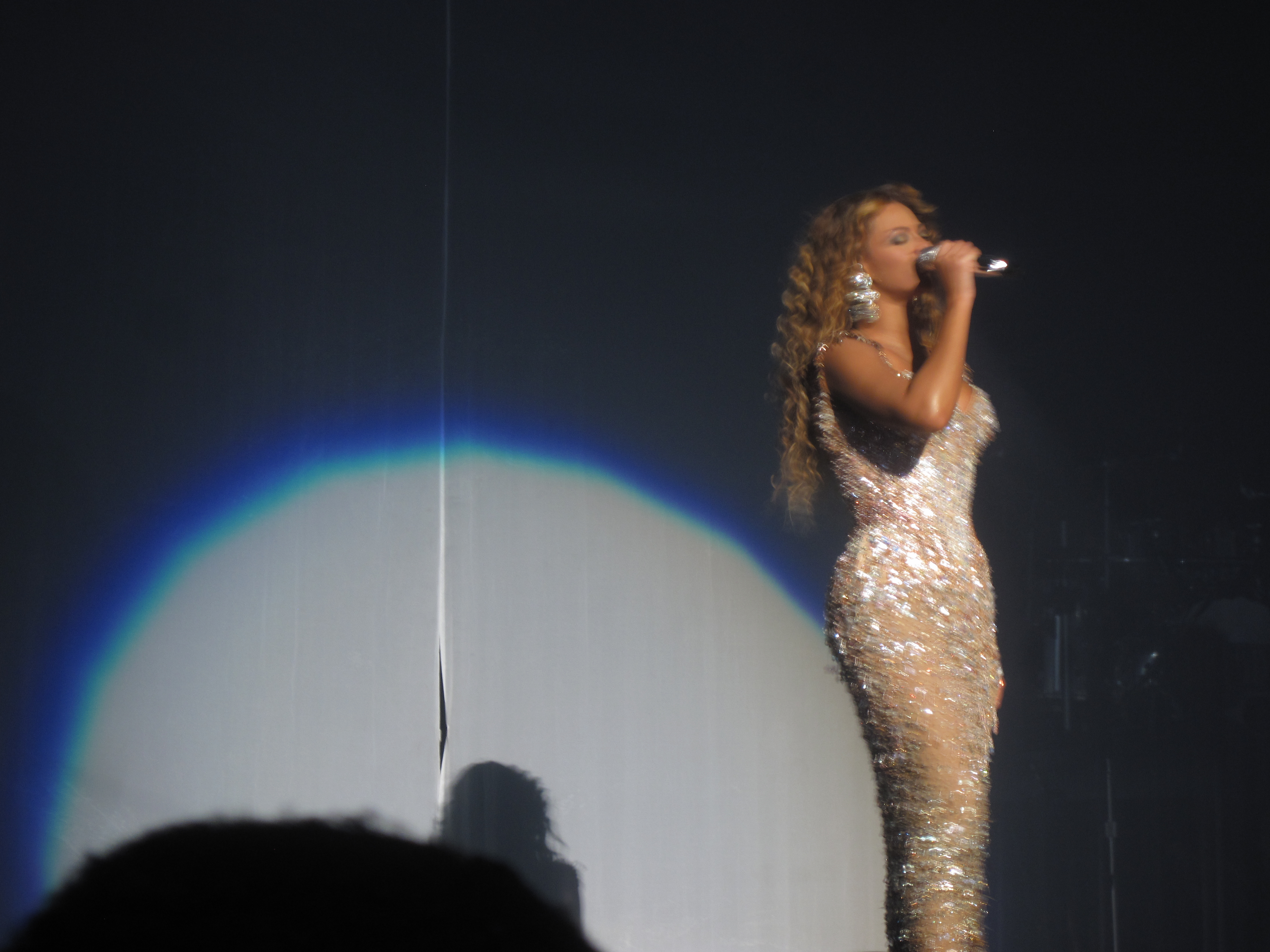 Beyoncé performing on The O2 in London.